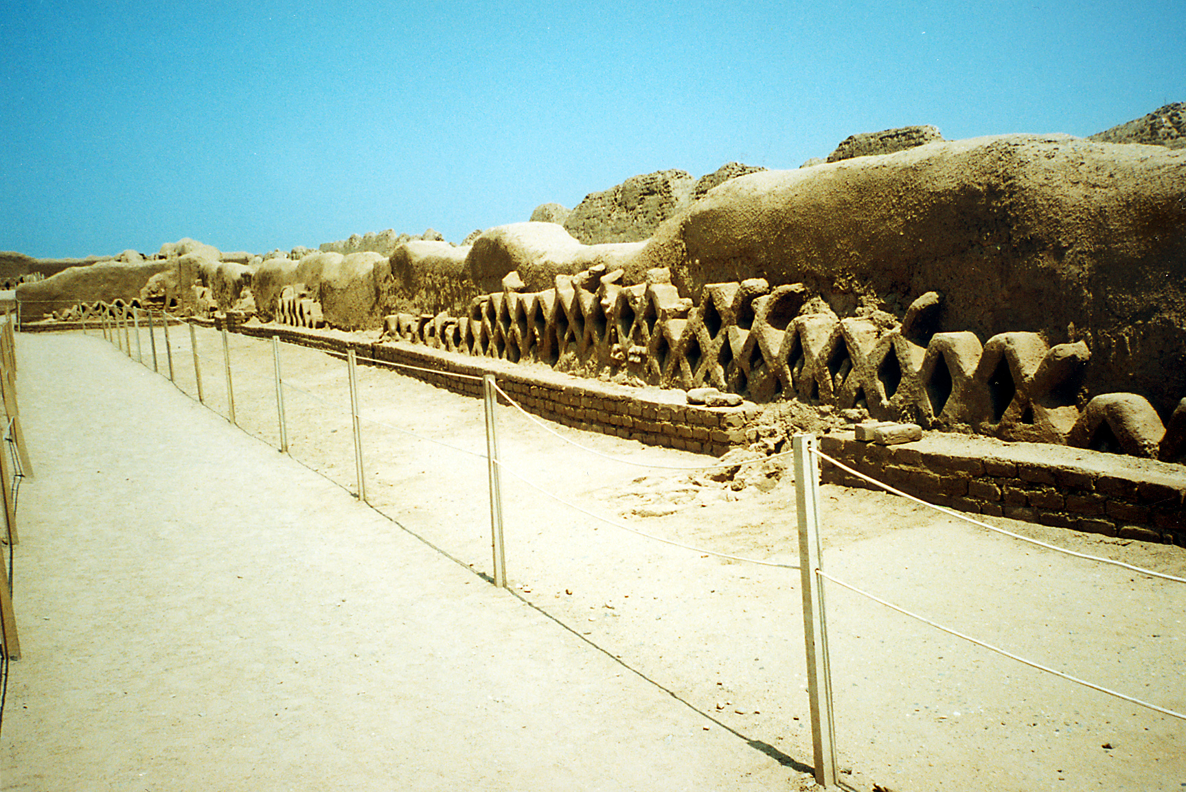 Chan Chan, the huge adobe town from Chimu time. Trujillo, Peru.